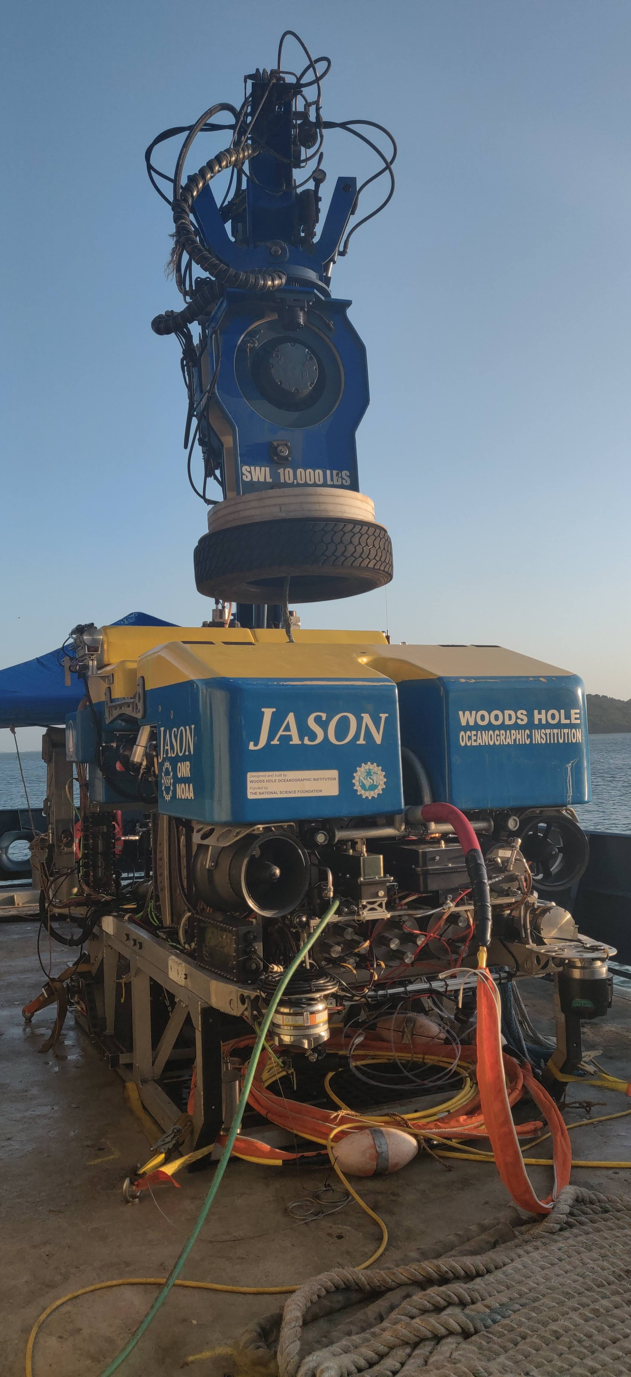 The remotely operated vehicle, Jason, is pictured here on board the R/V Atlantis prior to departure from Panama City in January 2020.